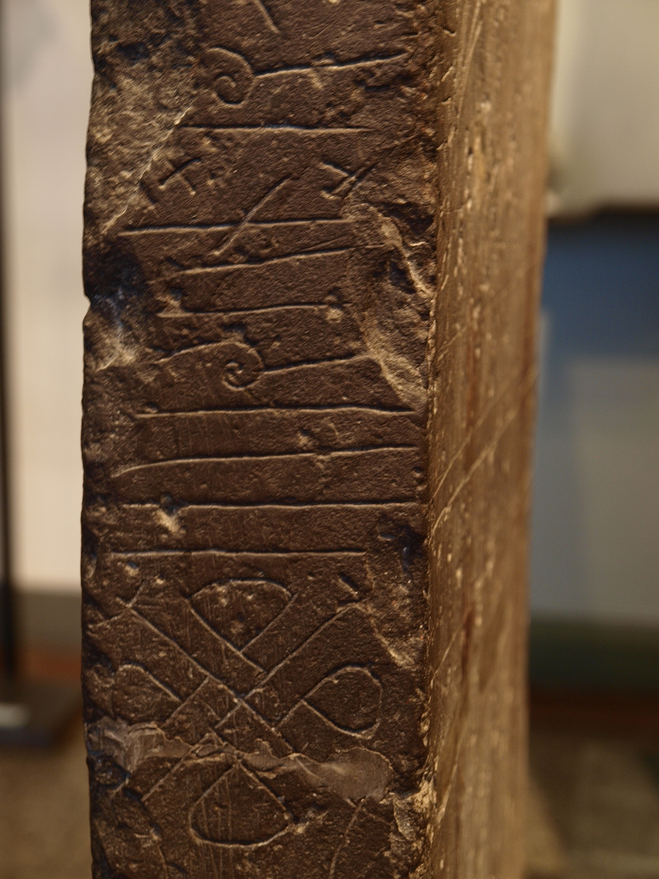 "jorunn put up this stone in memory of …, her husband, and fetched [it] from pingerike, from ulvoy. may the picture stone honour [?] them both." Historisk museum, Oslo, Norway.